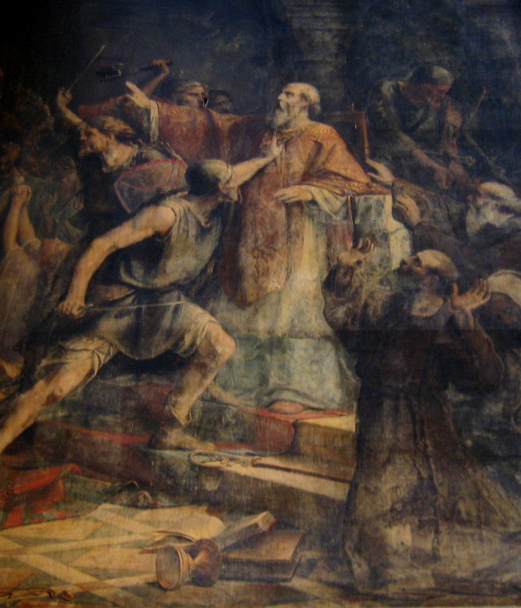 Painting by Édouard Jolin, can be seen in the cathedral of Nantes. Depicts the murdering of bishop St Gohard by the Vikings in 843.